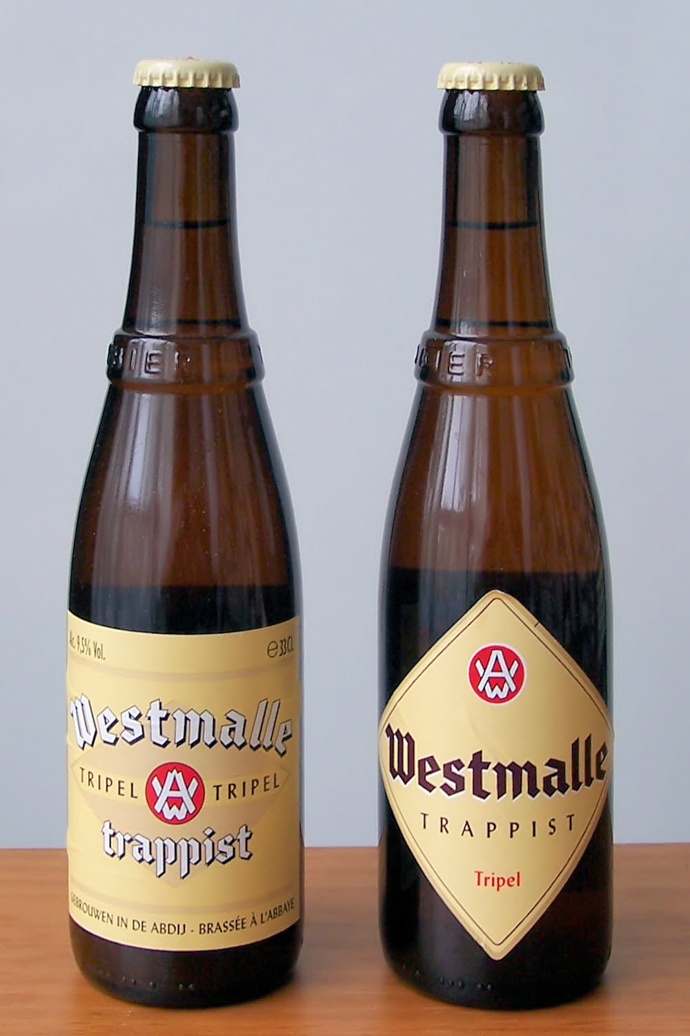 Tripel Westmalle beer bottles: old design on the left, new design on the right.